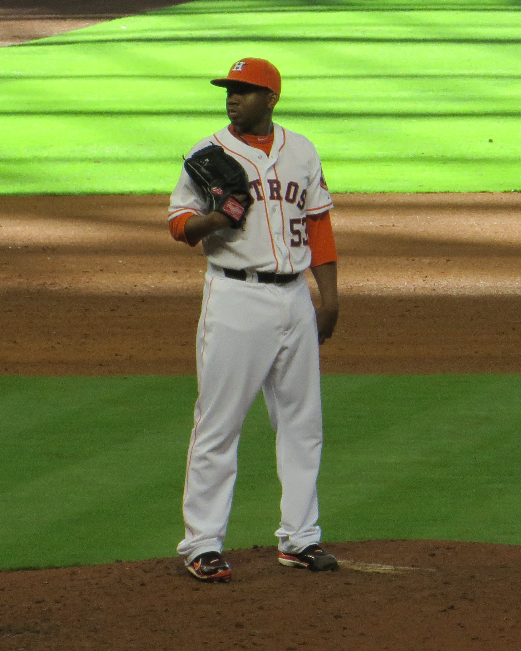 Houston Astros pitcher Wesley Wright, Minute Maid Park, June 29, 2013.